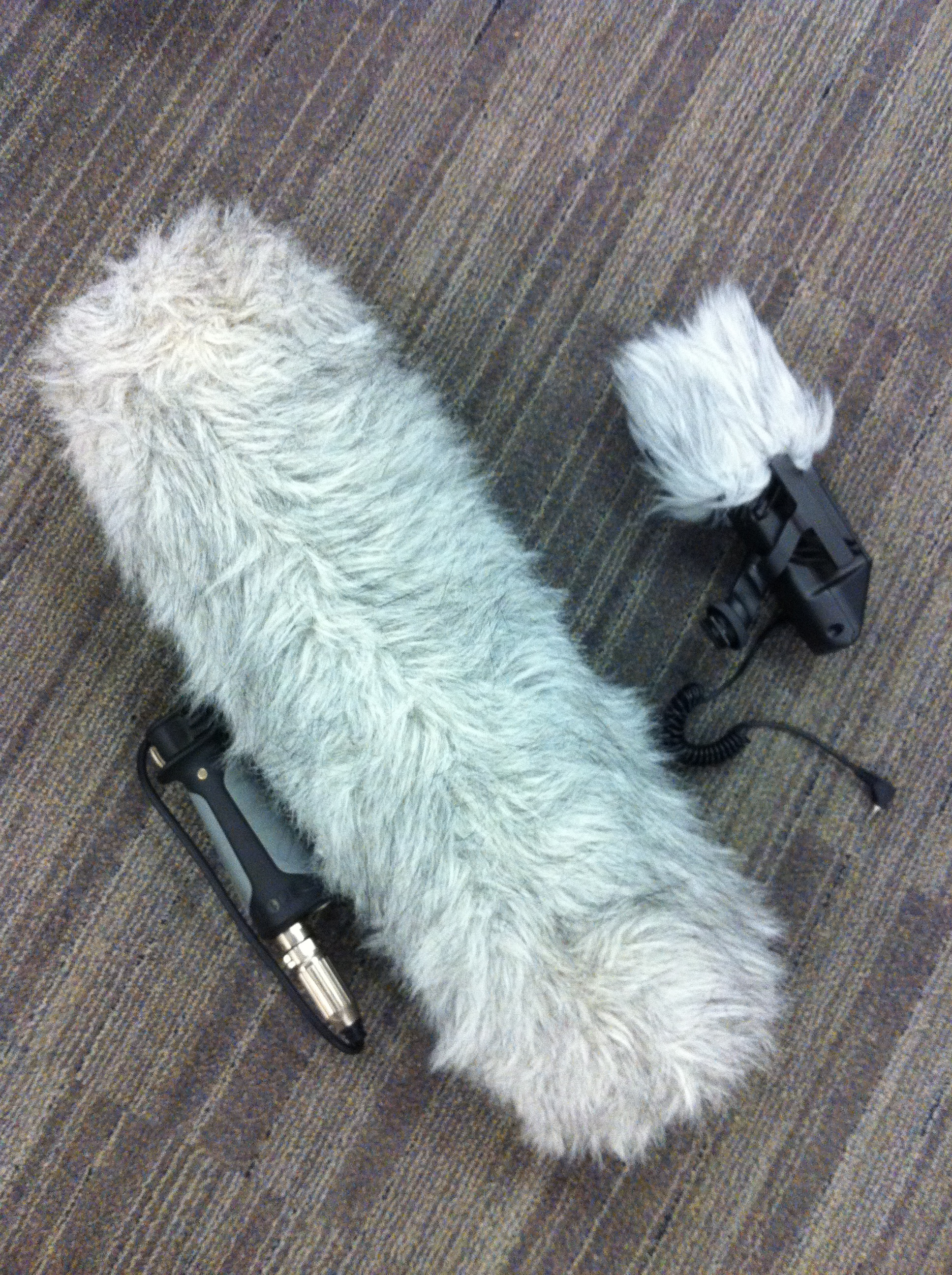 a Rode Dead Cat Windscreen and a Rode Dead Kitten Windscreen